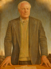 James Albert Smith Lech (b. 1942), member of the United States House of Representatives from Iowa